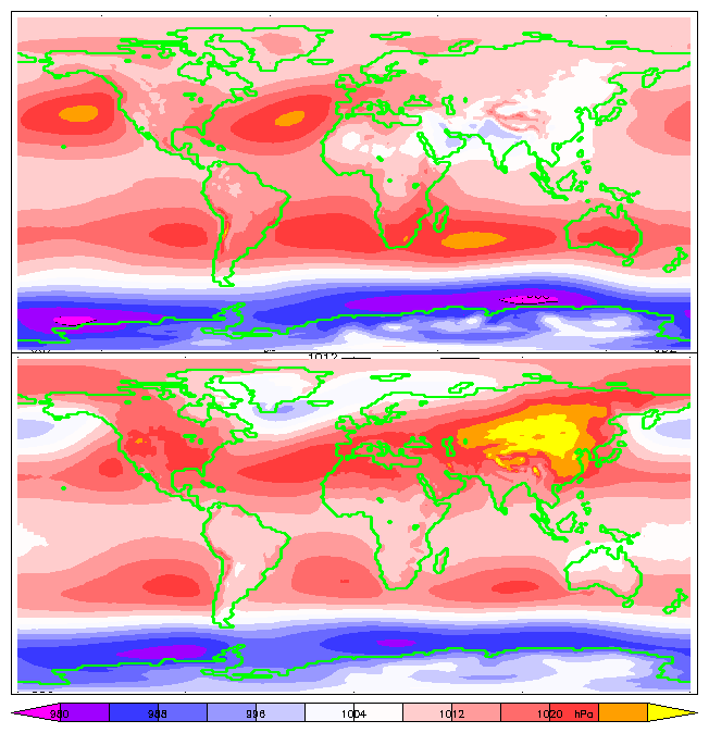 Mean sea level pressure for JJA (June-July-August, top) and DJF (December-January-February, bottom) from the ERA-15 reanalysis. By William M. Connolley using IDL